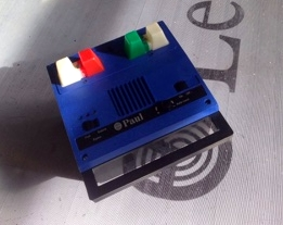 Fencing scoring equipment 2